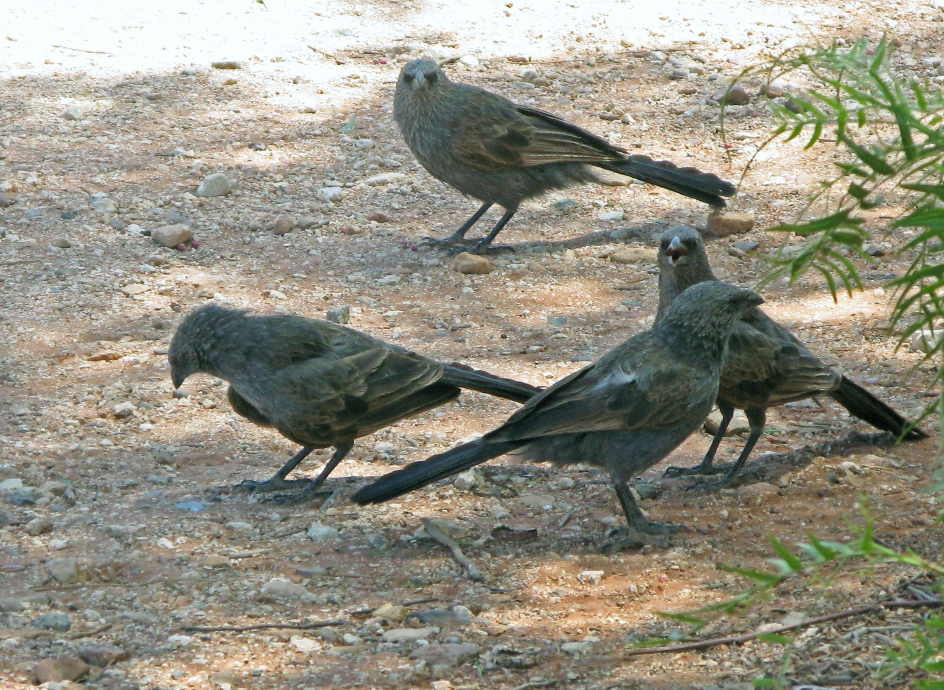 Group of four Apostlebirds, facing in different directions